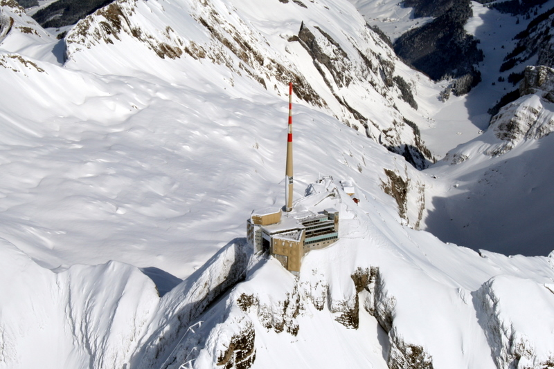 View to the Säntis from the air